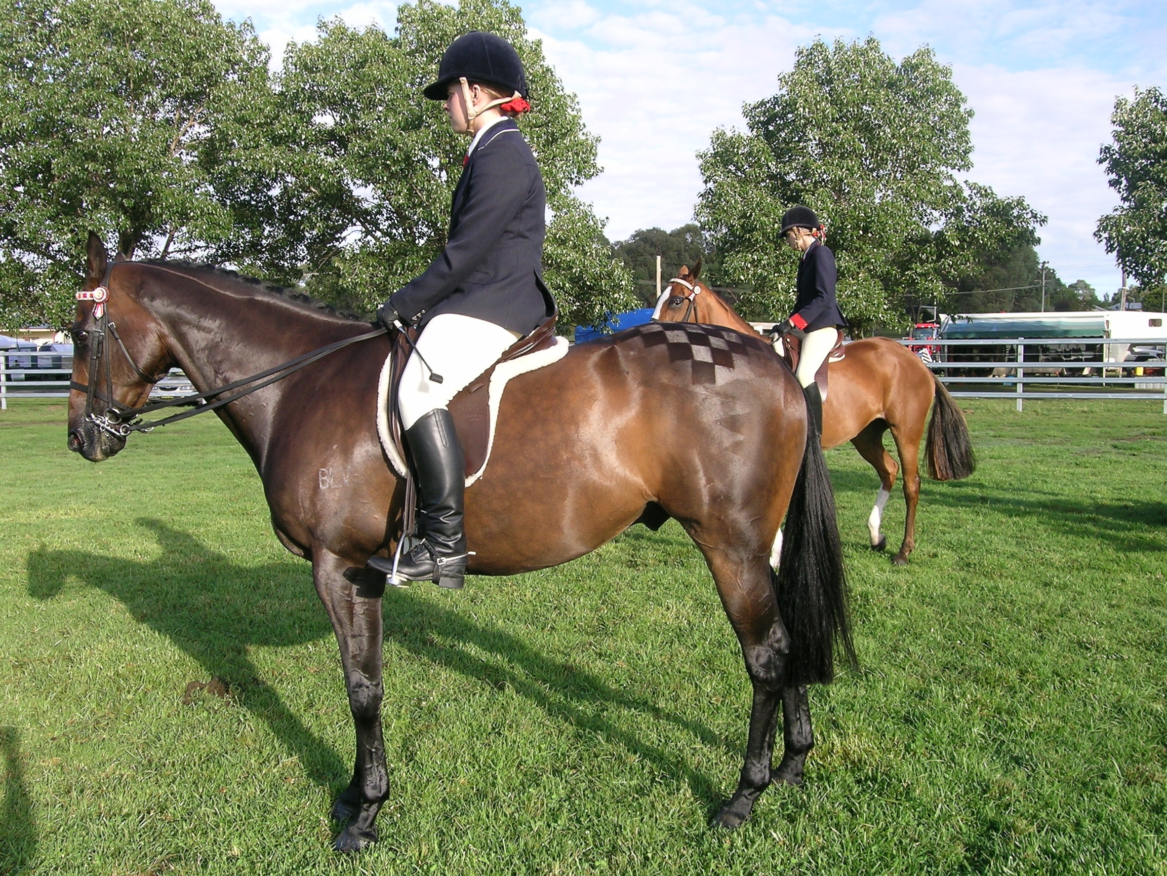 Hacks at an agricultural show.